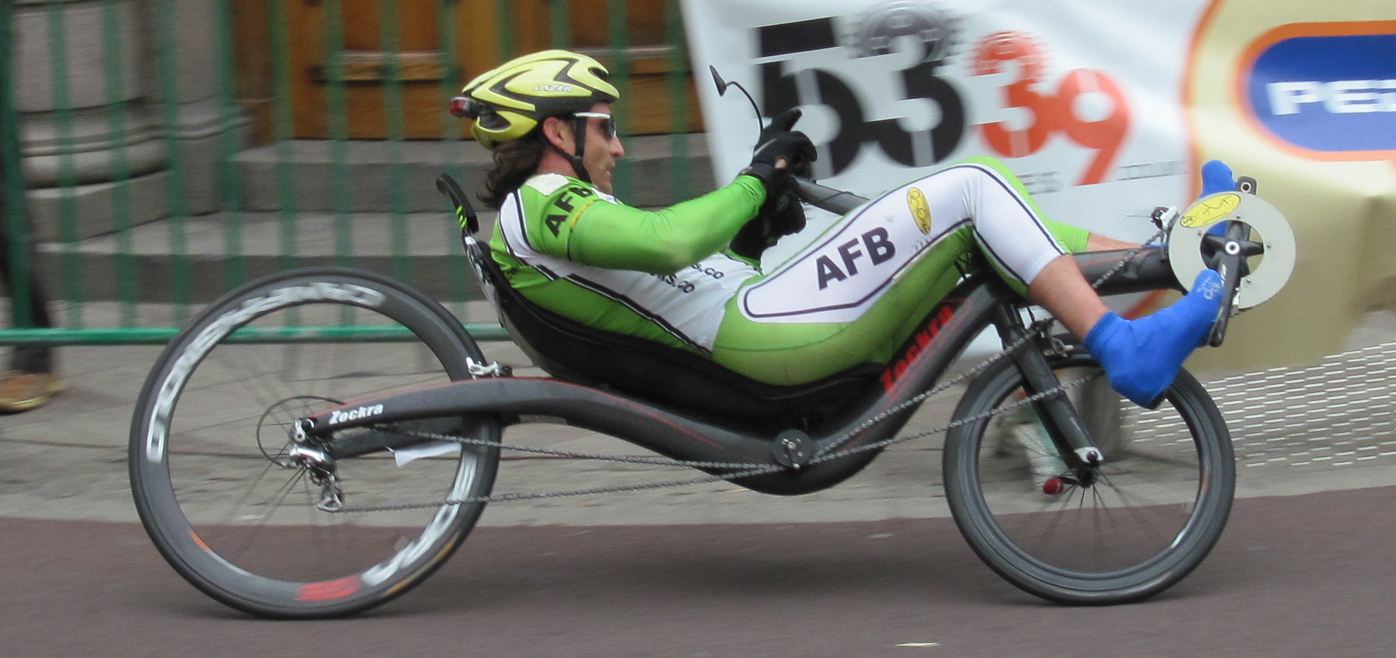 Jersey Town Criterium recumbent bicycle races, Saint Helier, Jersey - World Human Powered Vehicle Association 2010 World Championship